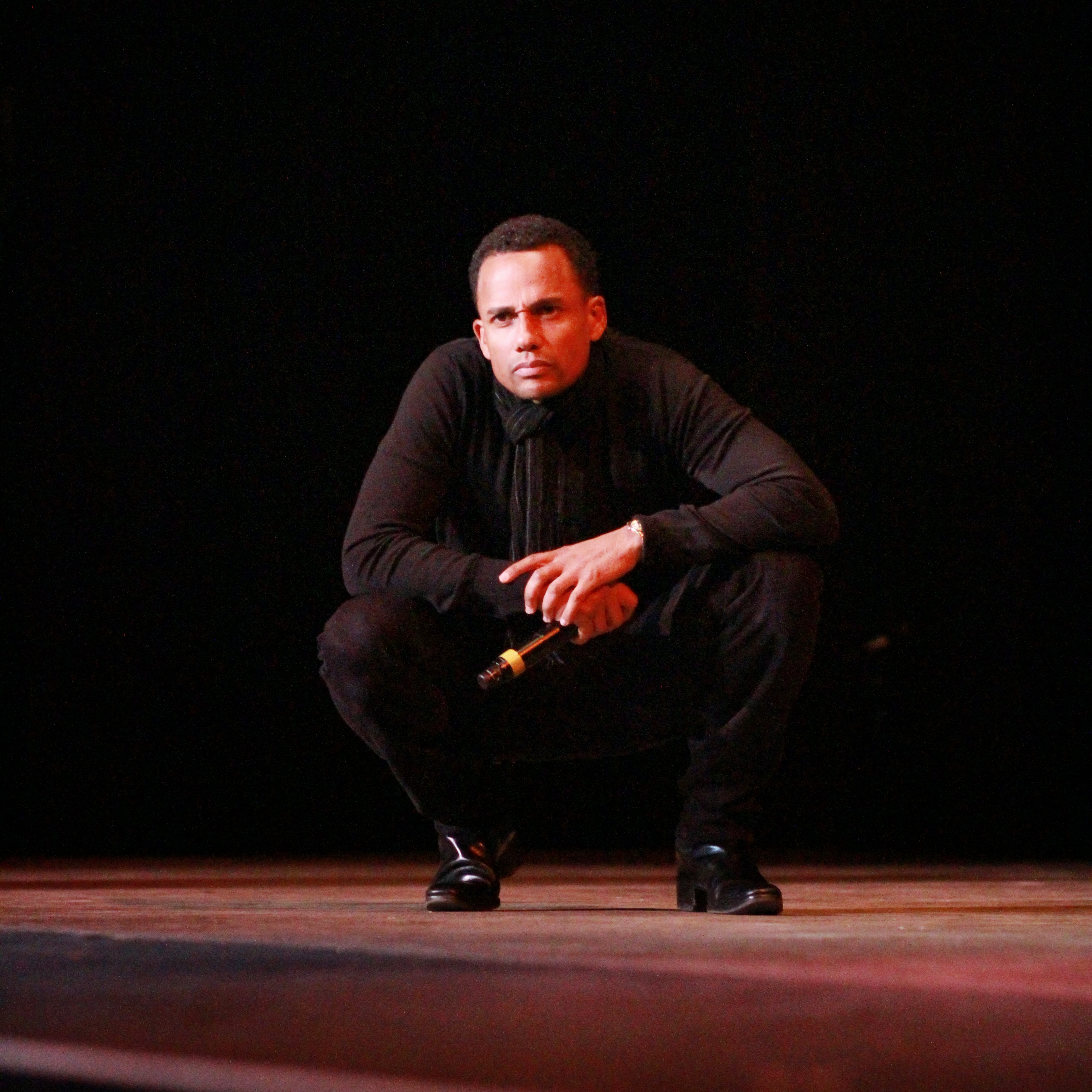 Hill Harper takes a question from an audience member at the Missouri Theatre in Columbia, Missouri.